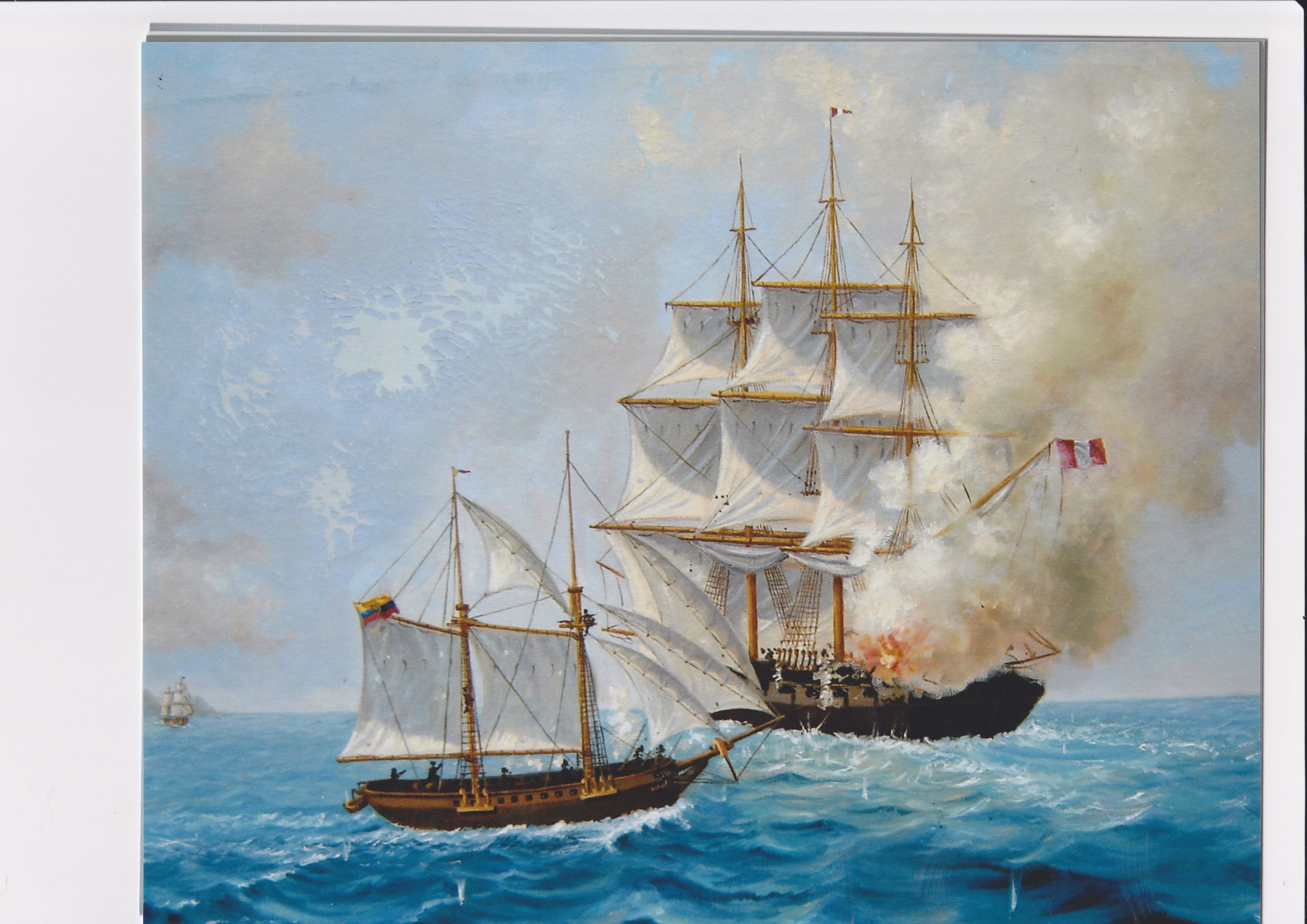 ship commanded by Thomas Wright engaging a superior enemy